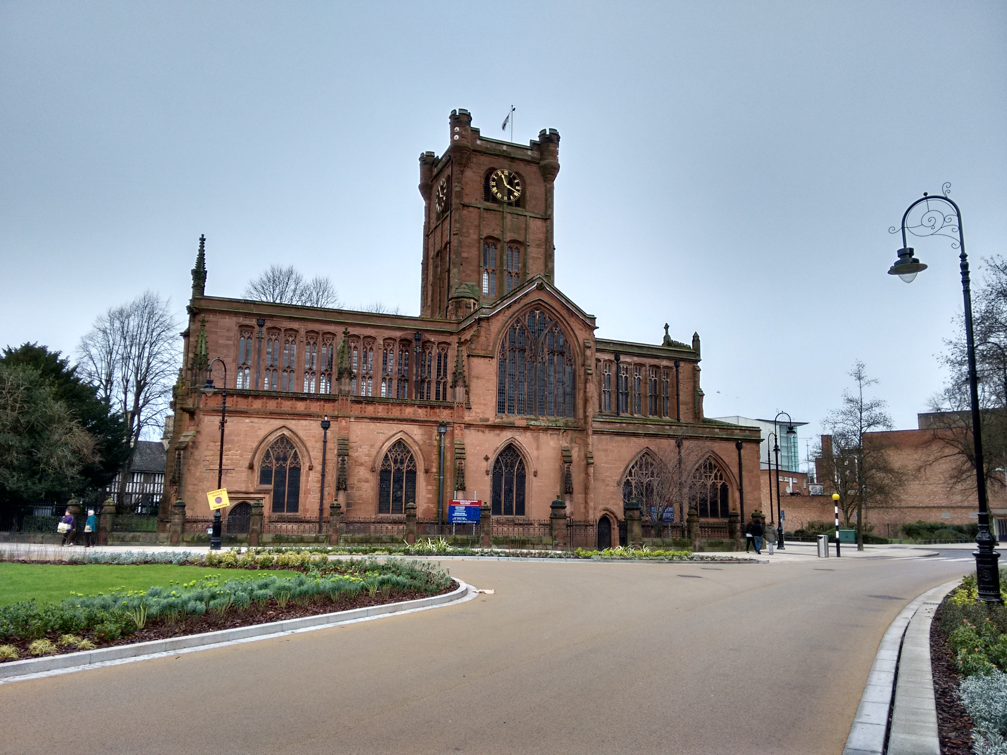 St John the Baptist's, Coventry. Taken after the 2015 public realm improvement work to Lidice Place. Showing Corporation Street.